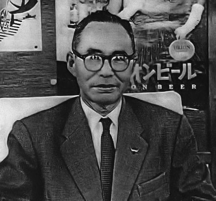 Sosei Gushiken